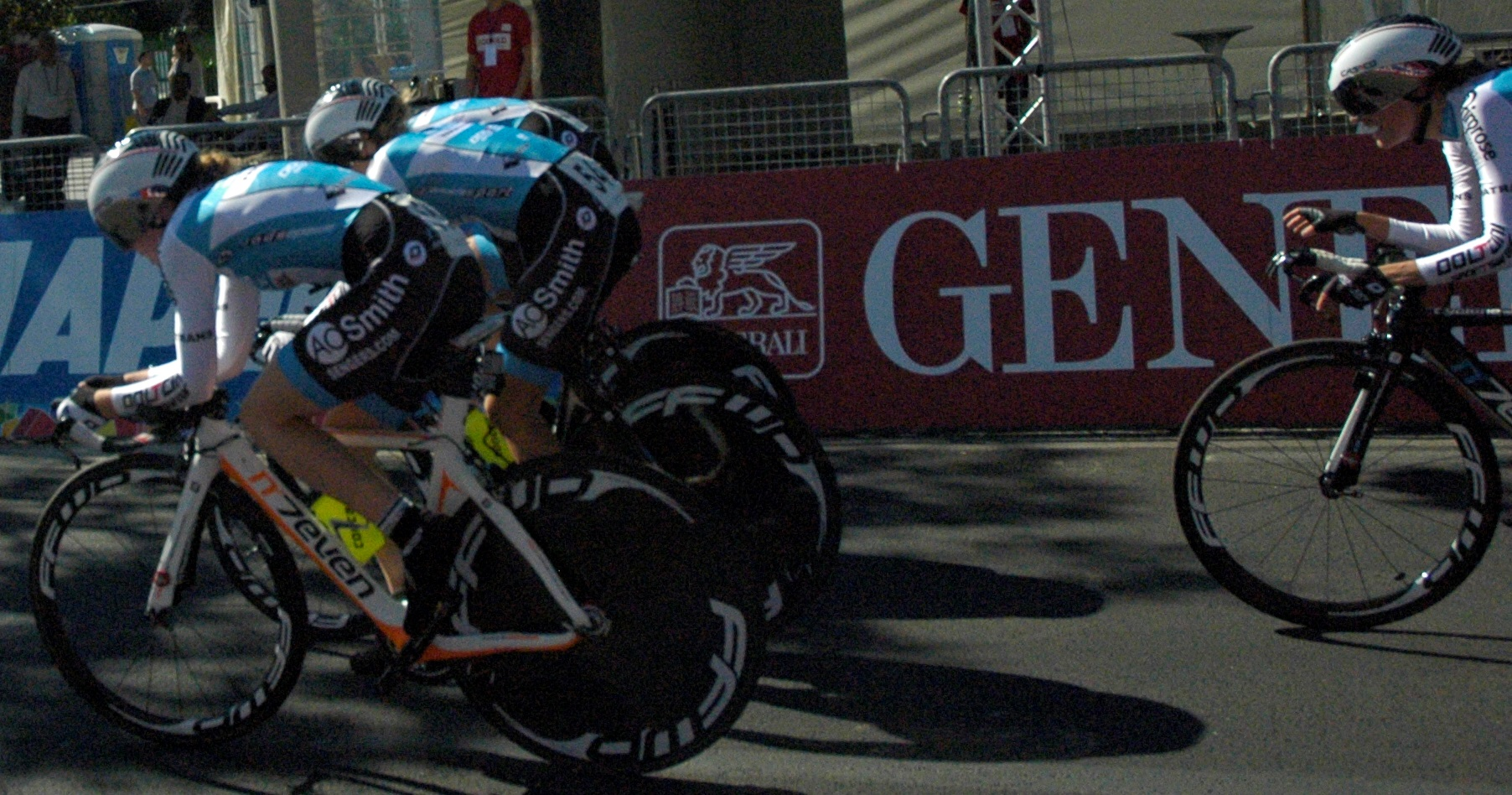 2013 UCI Road World Championships – Women's team time trial, Sengers Ladies